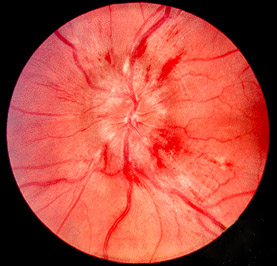 Photo demonstrating Papilledema which is a swollen optic disc caused by increased intracranial pressure.